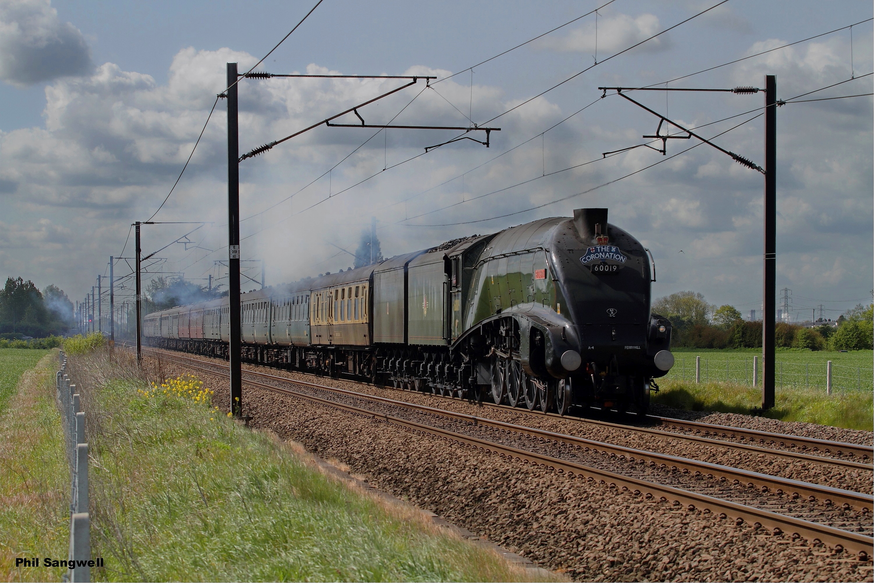 60019 "Bittern" passes Flyfish Crossing working 1Z27 Kings Cross - Edinburgh. "The Coronation" charter.